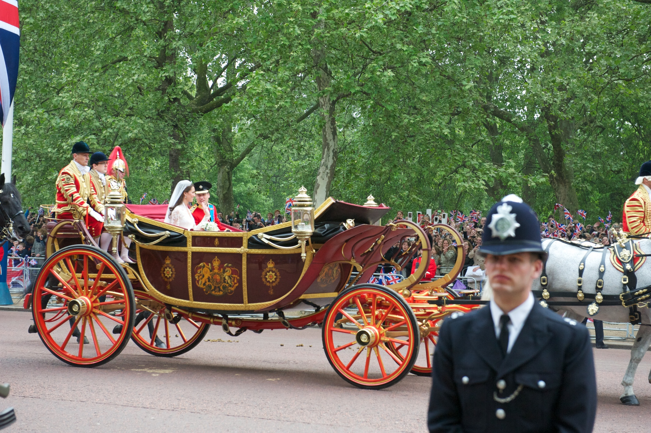 the 1902 State Landau carriage carrying Prince William and Kate Middleton from their marriage